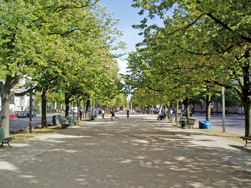 Unter den Linden boulevard ("under the linden trees"), Berlin, Germany.